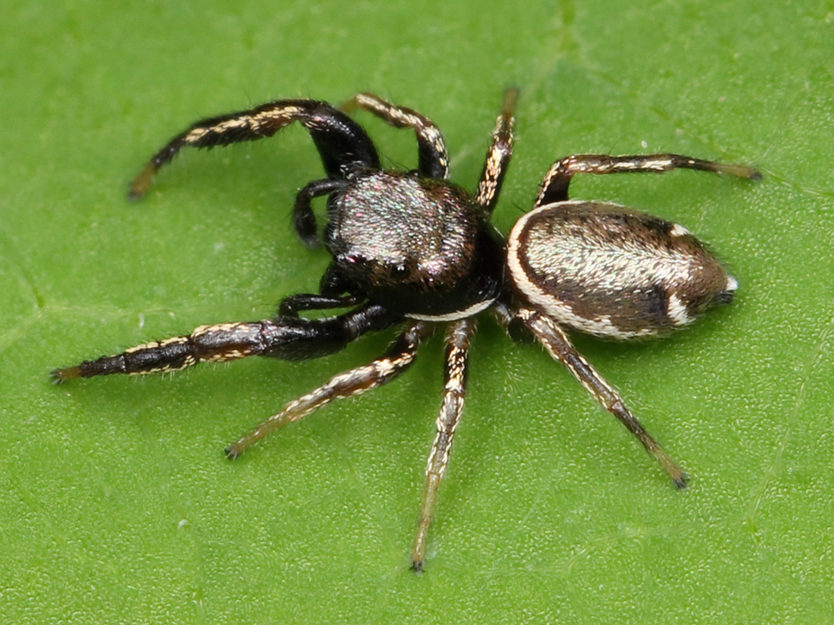 Adult male Sassacus vitis jumping spider from Heron's Head Park, San Francisco